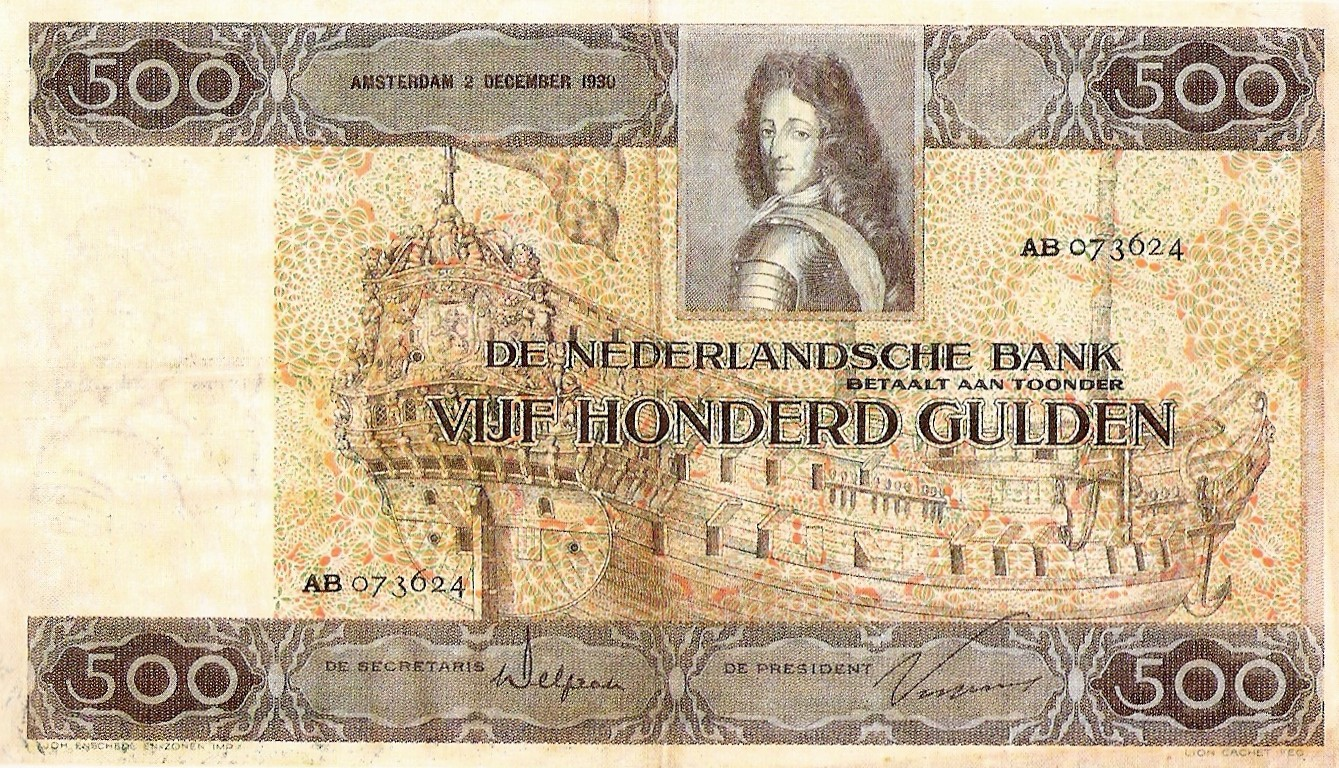 Dutch 500 guilder note with a portrait of William III of England, Dutch stadtholder and Prince of Orange.